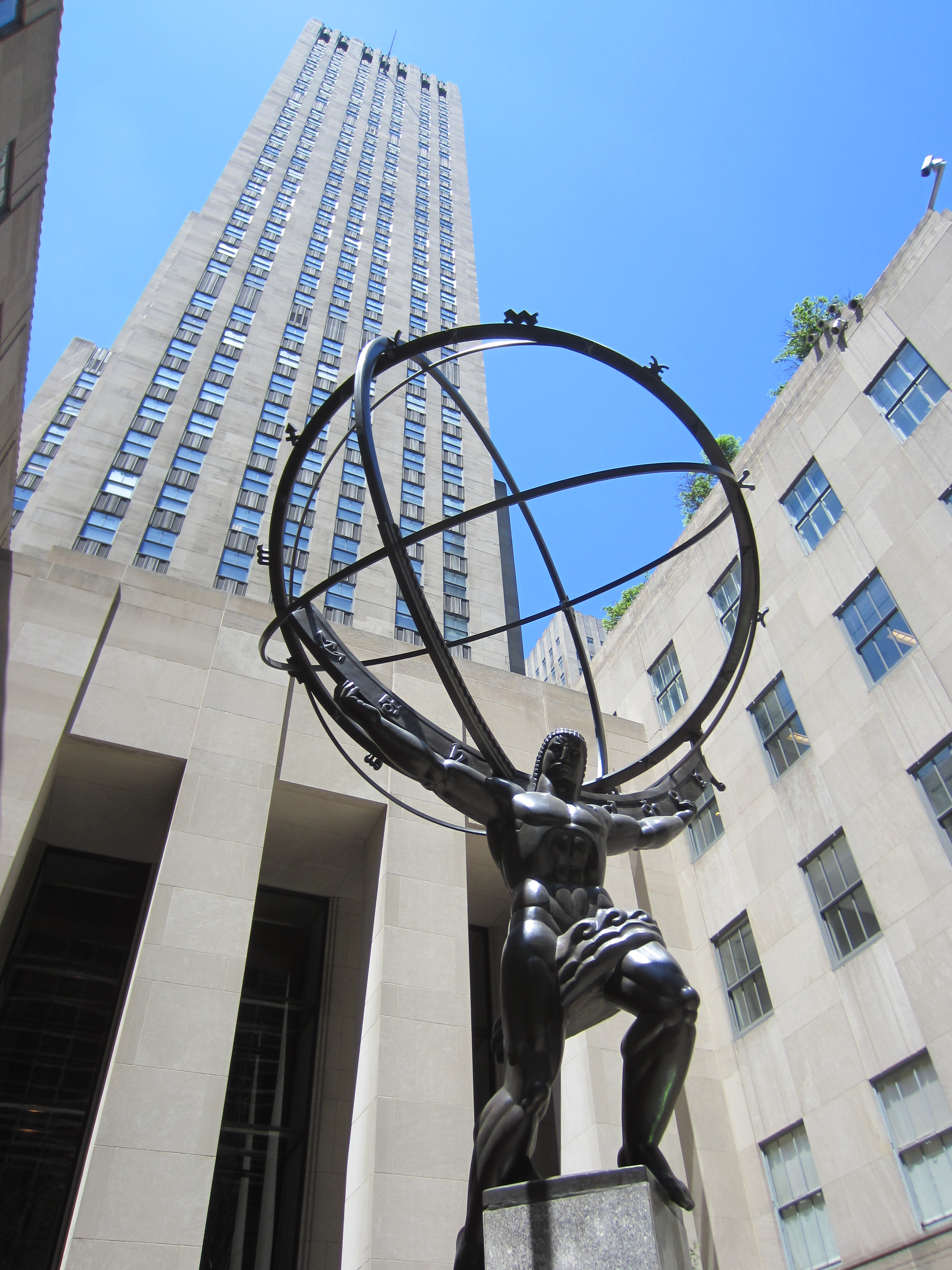 New York City (May 2014)